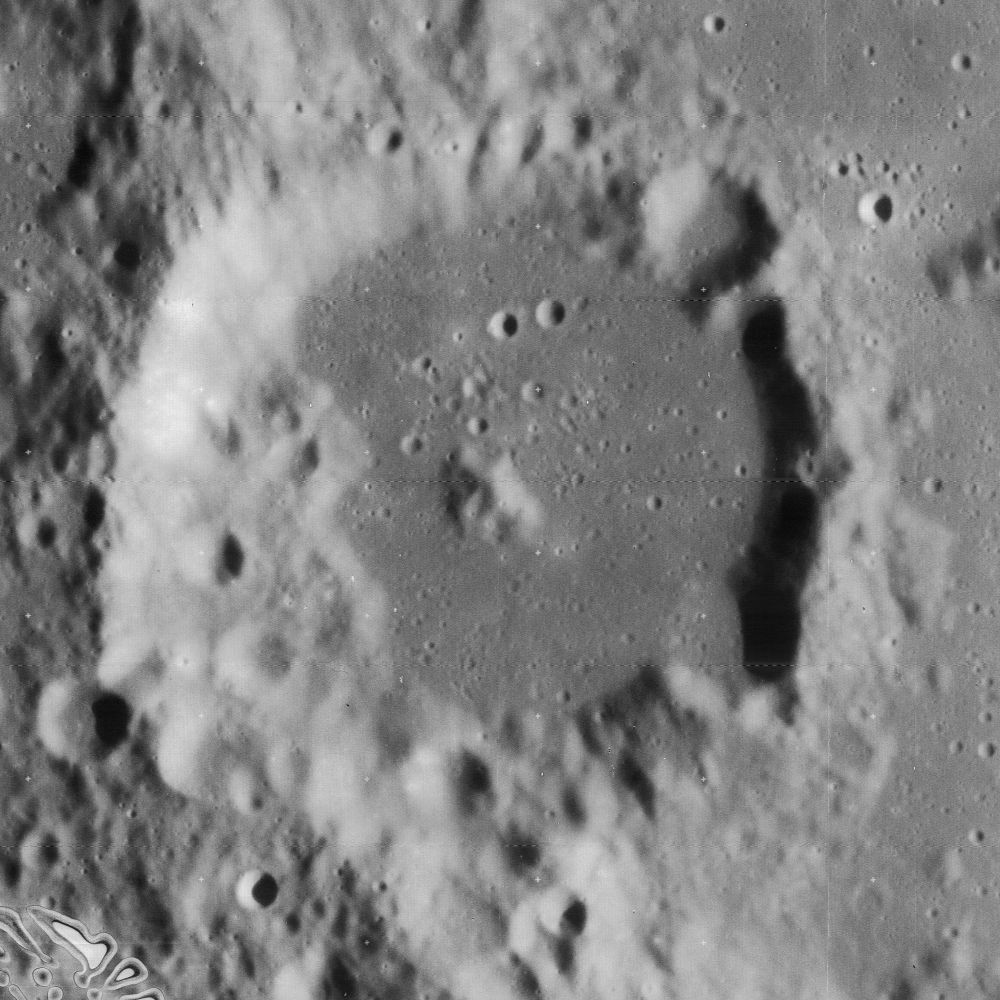 Klein crater, on the moon. Spots in lower left corner are blemishes on original image.